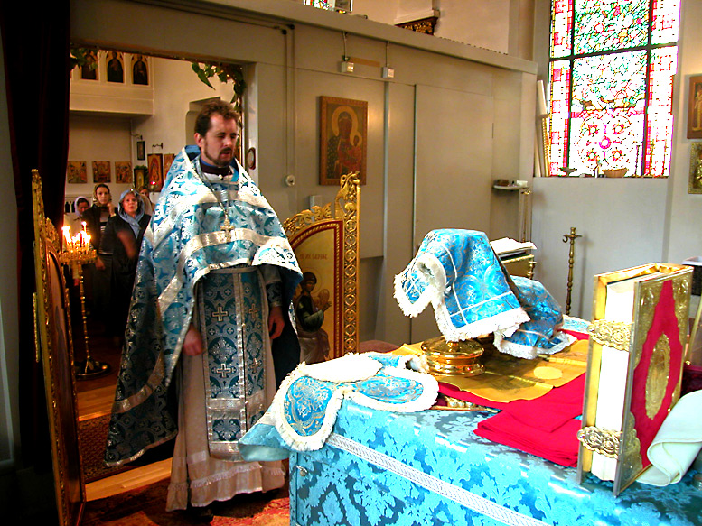 Liturgy in Orthodox church, Dusseldorf